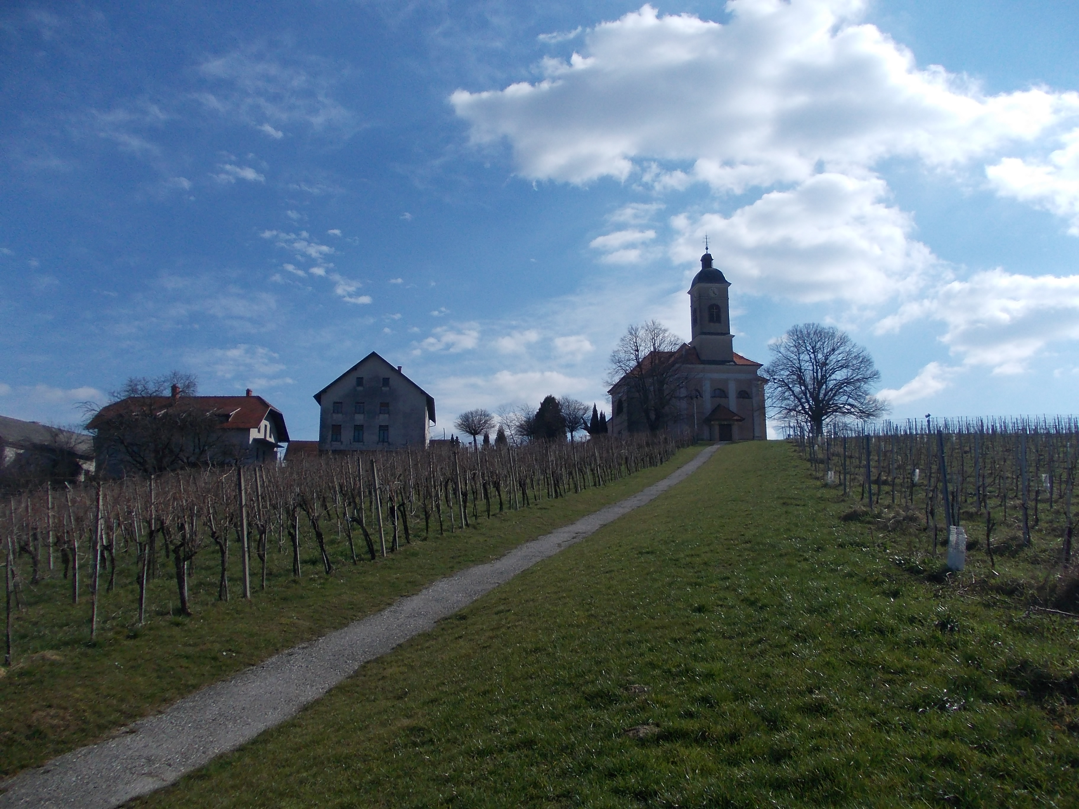 Mary Magdalene Church, Kapelski Vrh